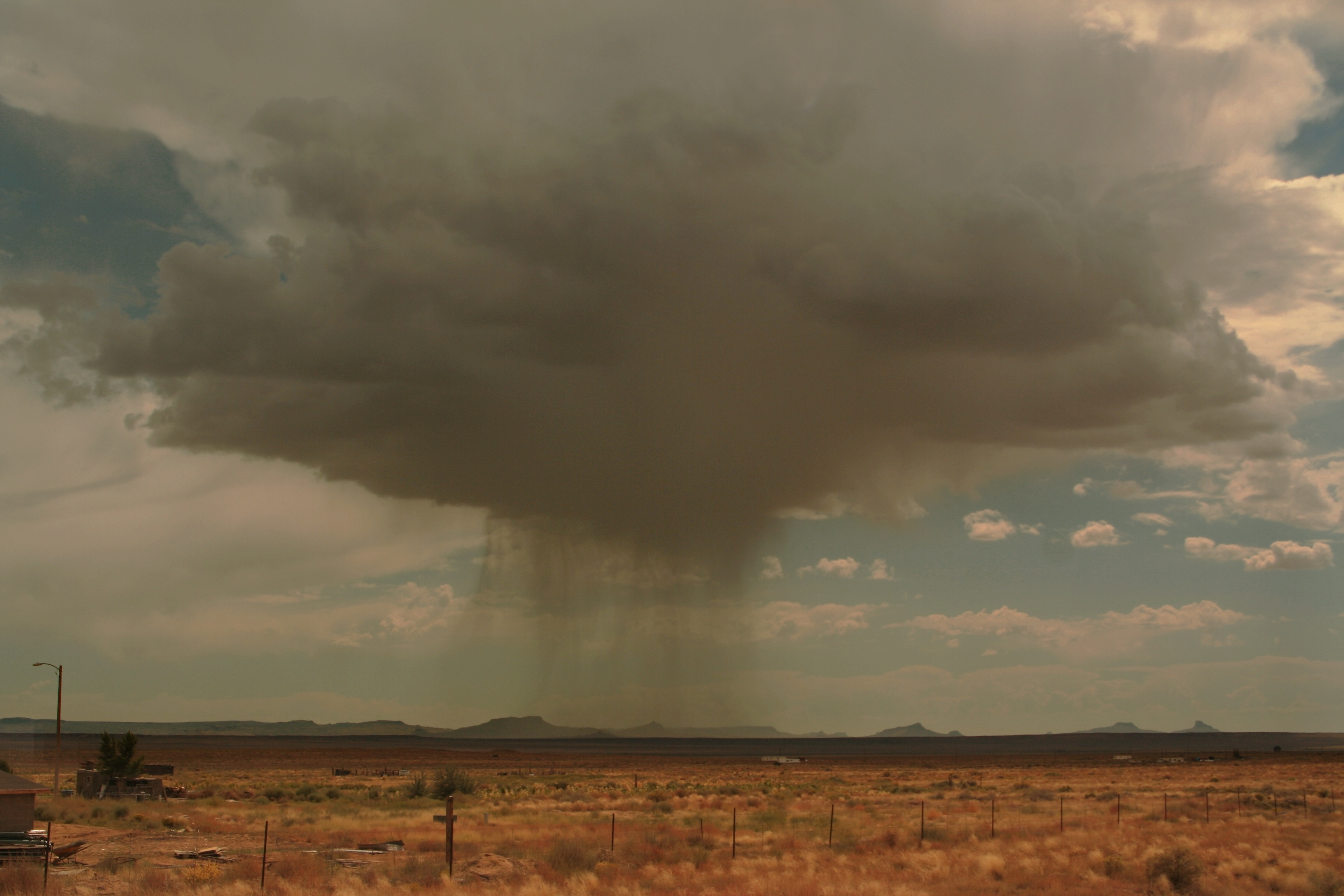 rain